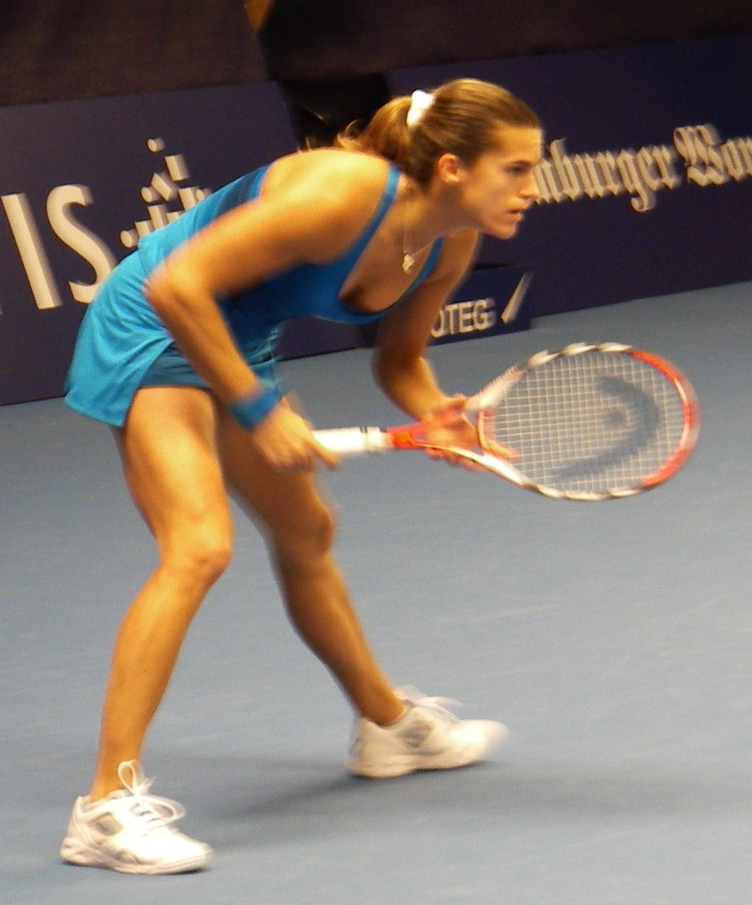 Amélie Mauresmo at 2008 Fortis Championships Luxembourg